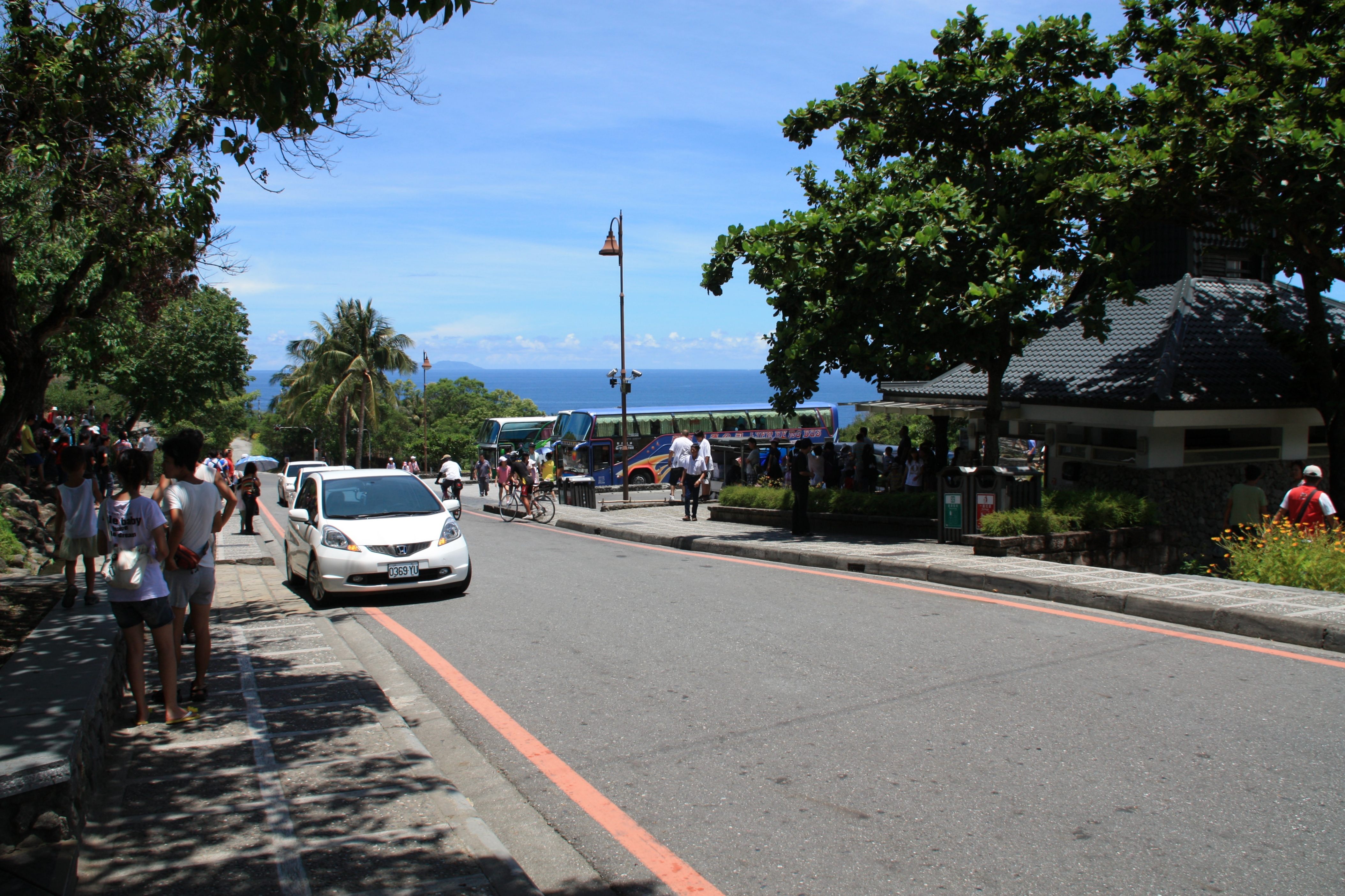 Taitung CountyDōngHé TownshipDōuLánWater Running up AreaWŭXiàn Industrial RoadMap is out of date.Position and heading will be adapted, when actualized map is available.Lord Koxinga (talk) 13:56, 28 April 2013 (UTC)